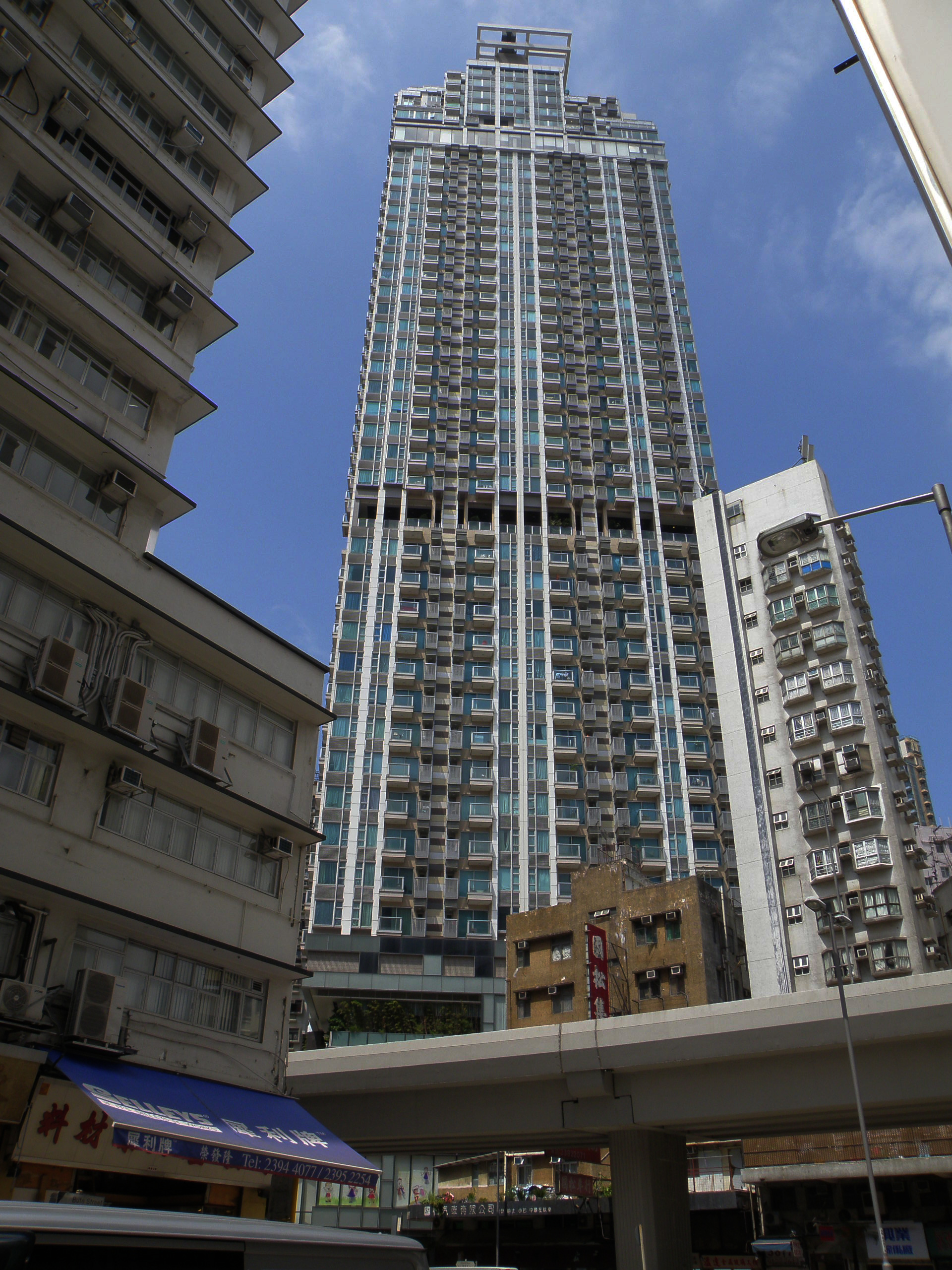 Lime Stardom in Tai Kok Tsui, Hong Kong.